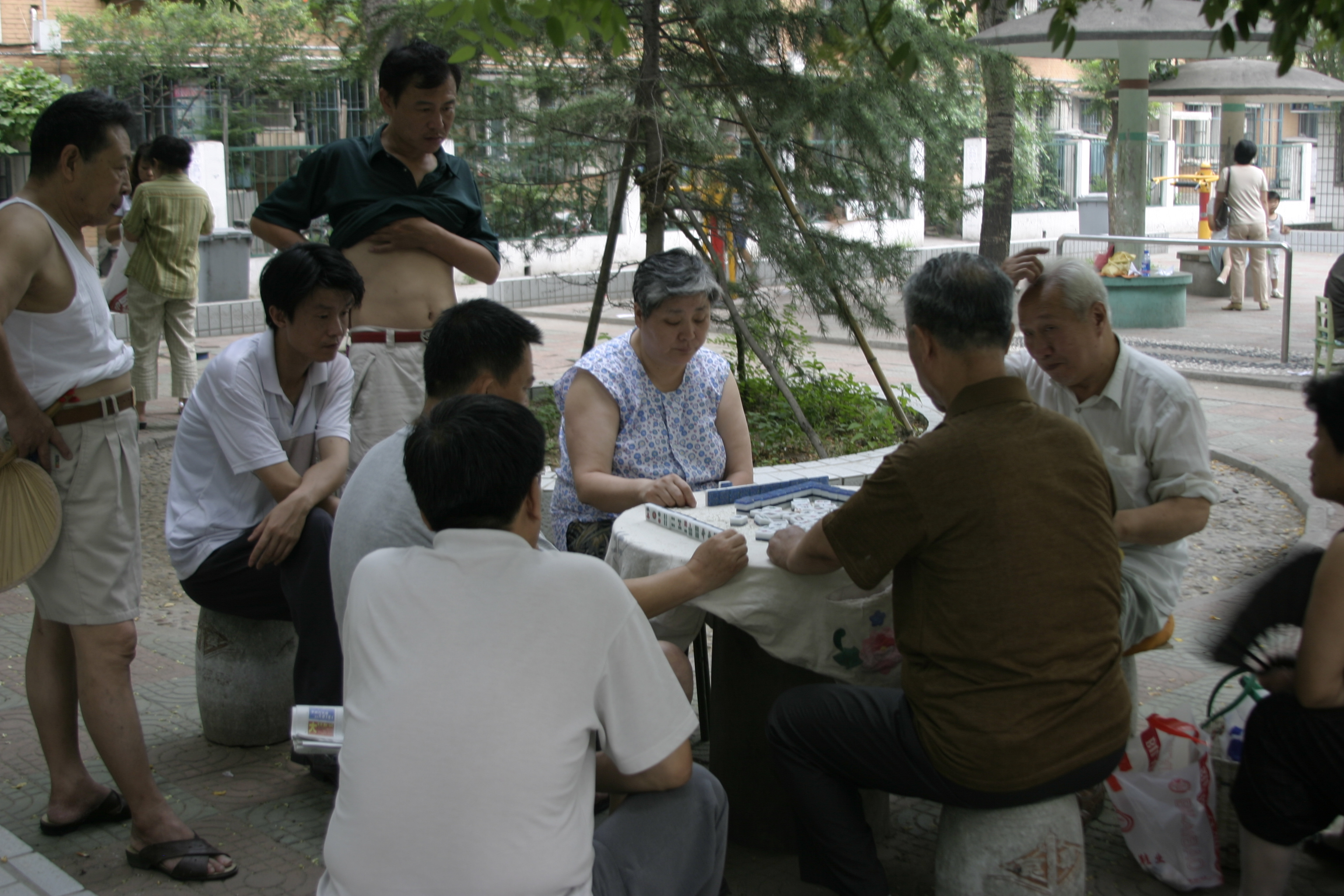 Chinese Culture - Chinese Mahjong is commonly played outside in yards and parks by the mid. to old aged. Taken with a Canon EOS 10D/EF 28-135mm 1:3.5-5.6 IS near Sanyuan Bridge, Beijing.